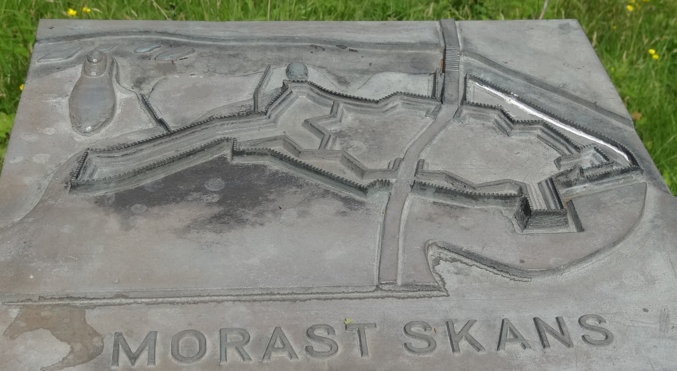 Morast sconce as shown on plaque at the site of the sconce in Charlottenberg, Sweden.